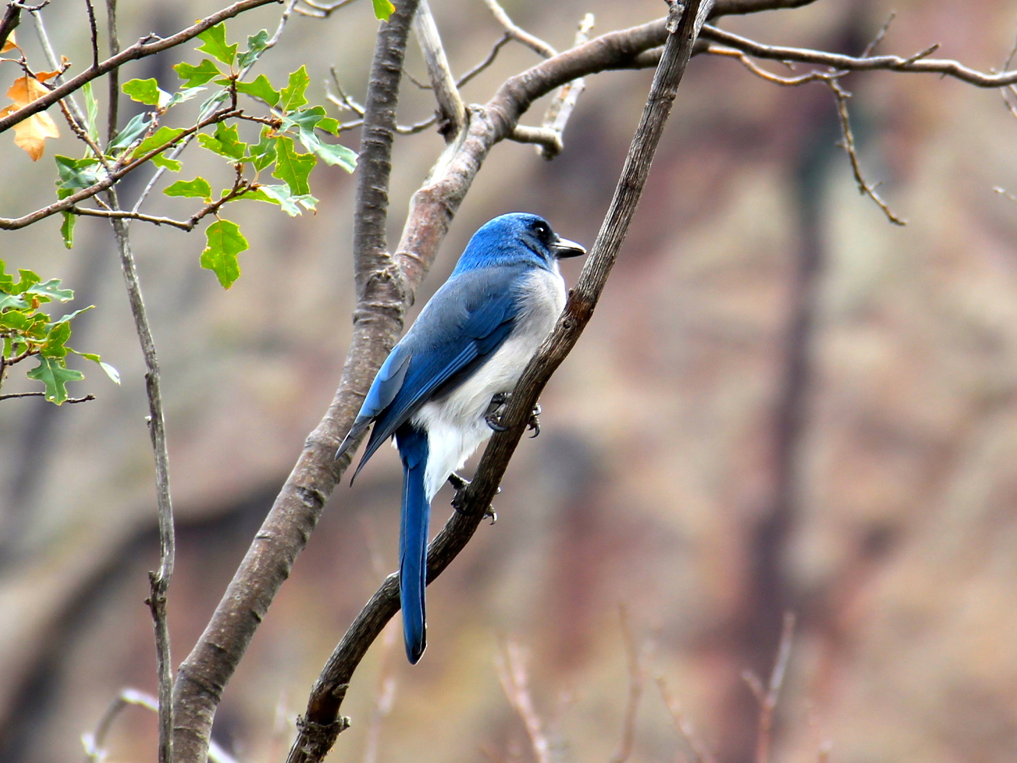 Aphelocoma wollweberi at Pinnacles Trail, Big Bend National Park, Texas